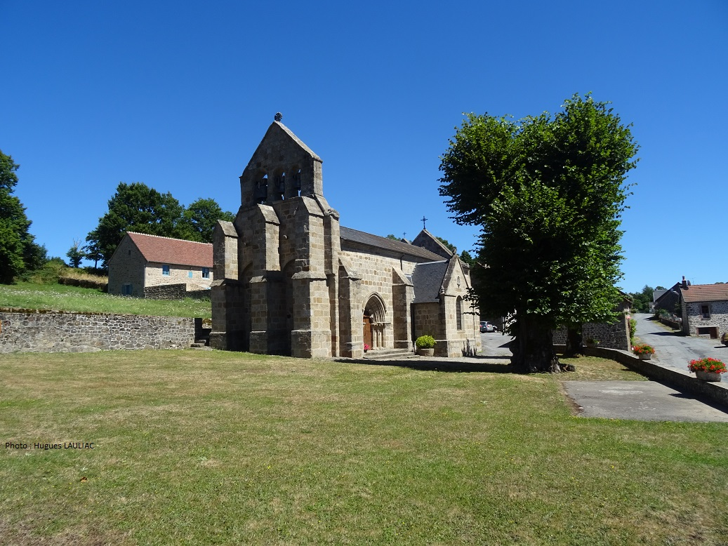 Eglise St Pierre et St Paul, Poussanges